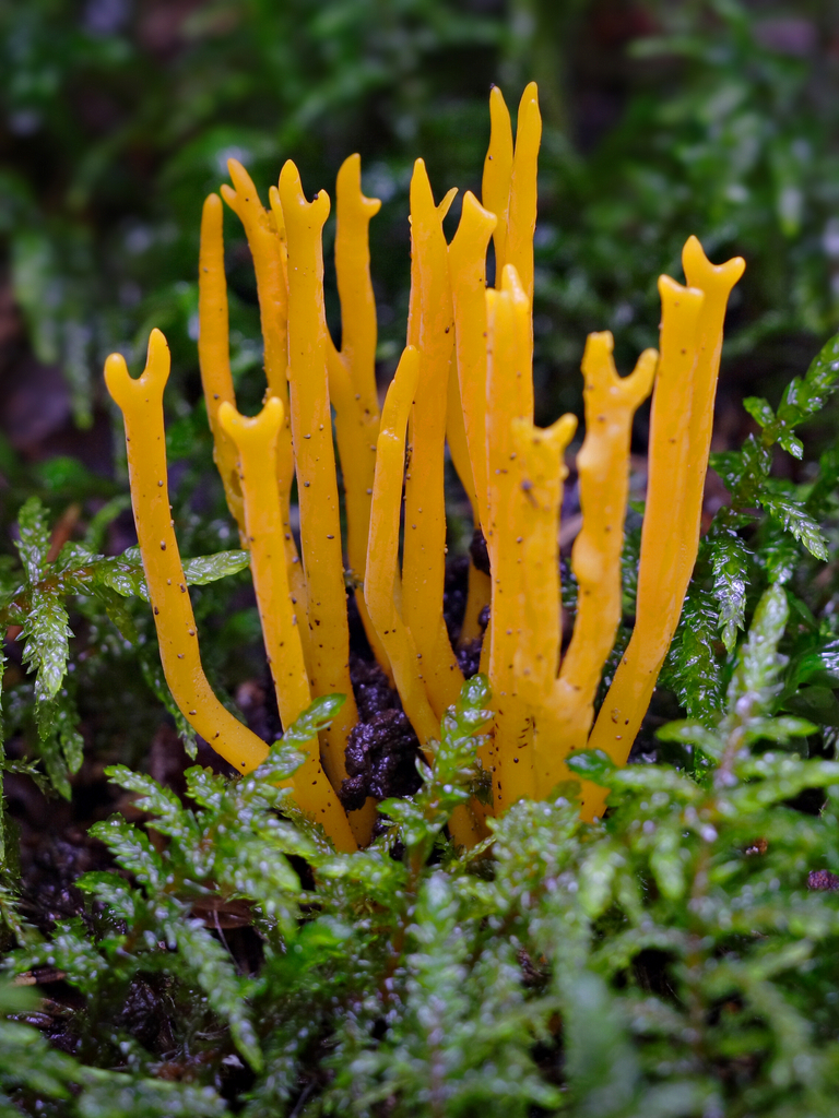 Yellow Stagshorn Fungus (Calocera viscosa) Dysmorodrepanis 14:21, 28 May 2008 (UTC)